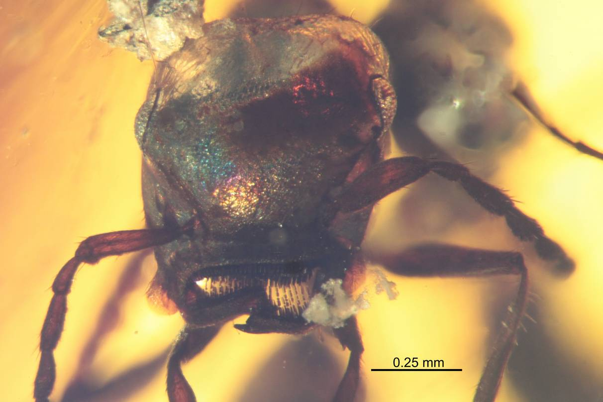 Closeup view of the Zigrasimecia ferox paratype, specimen JWJ-Bu18b. Burmese amber, Cenomanian (99mya), Hukawng Valley, Myanmar